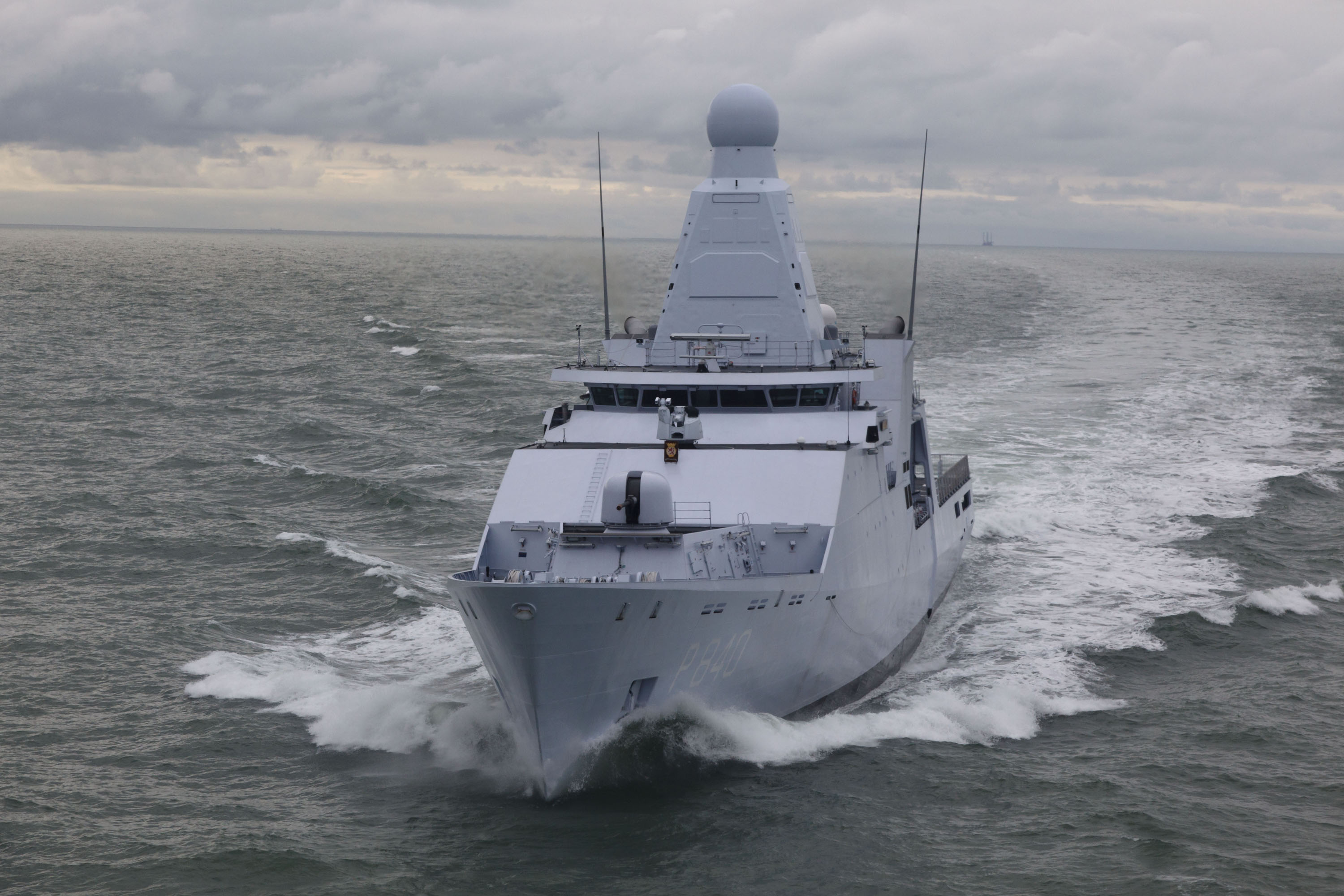 HNLMS Holland, a Holland-class OPV.